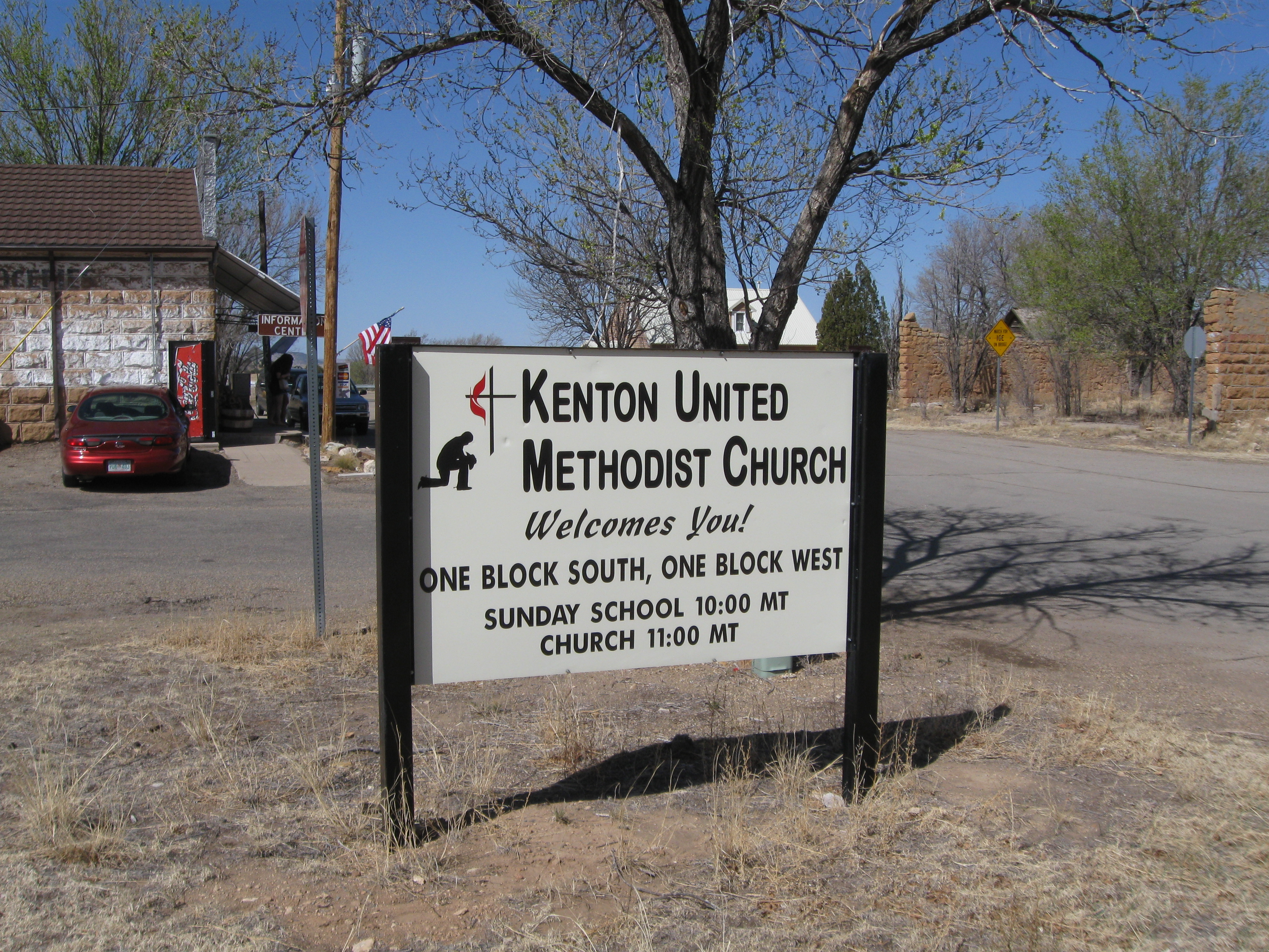 Sign outside of Methodist church, built by stonemason Lee Henley, in Kenton, Oklahoma.